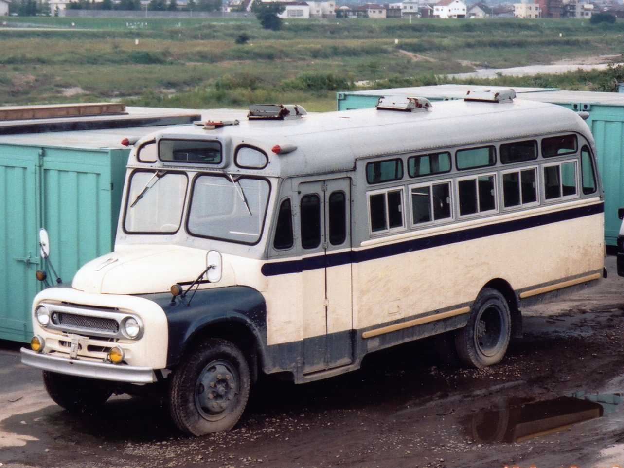 Toyota FB at Tama River